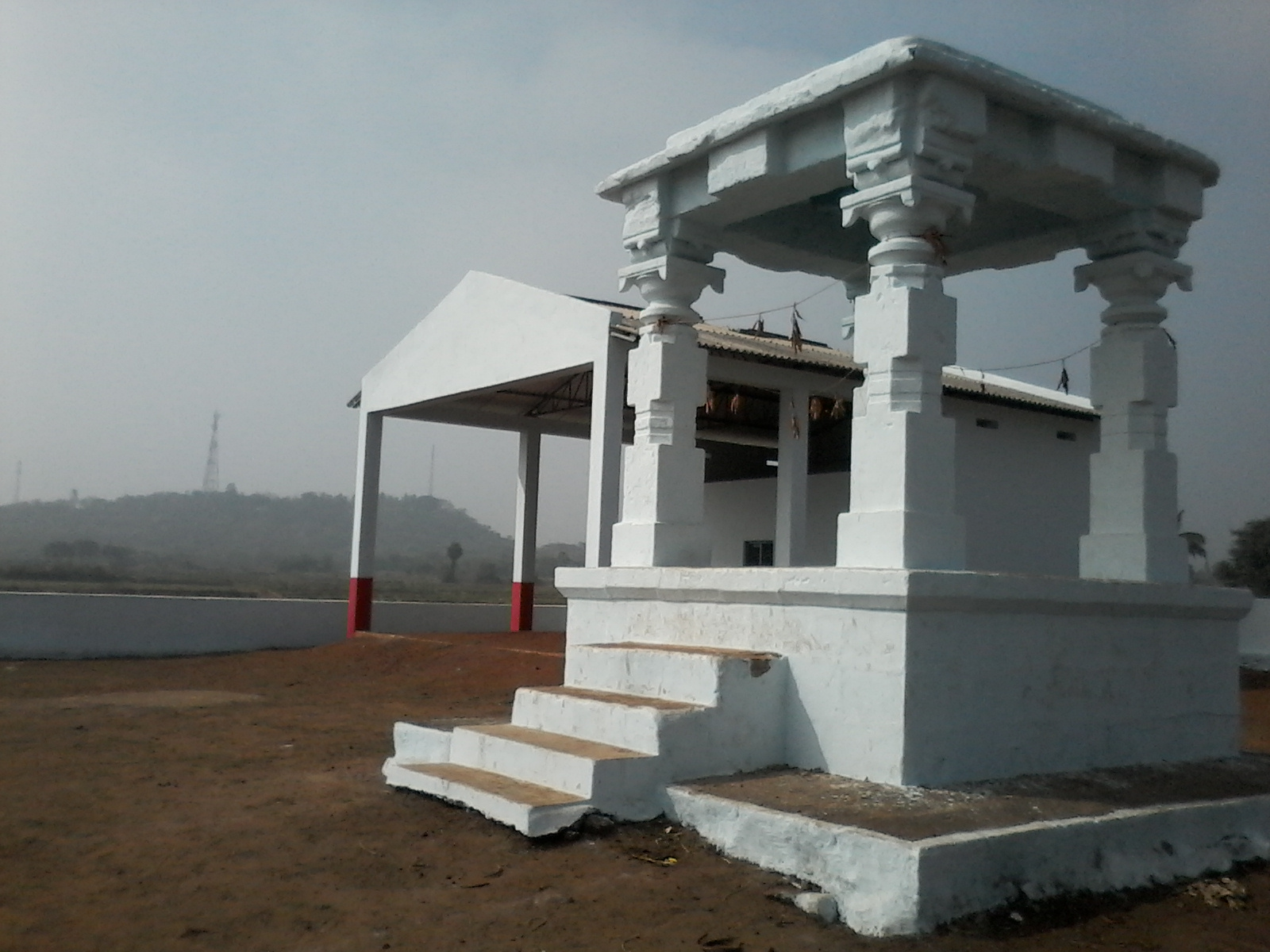 giripradakshina mandapam of lord venkateswara near dwaraka tirumala ద్వారకా తిరుమల దగ్గరలోని వేంకటేశ్వర స్వామి గిరిప్రదక్షిణ మండపం